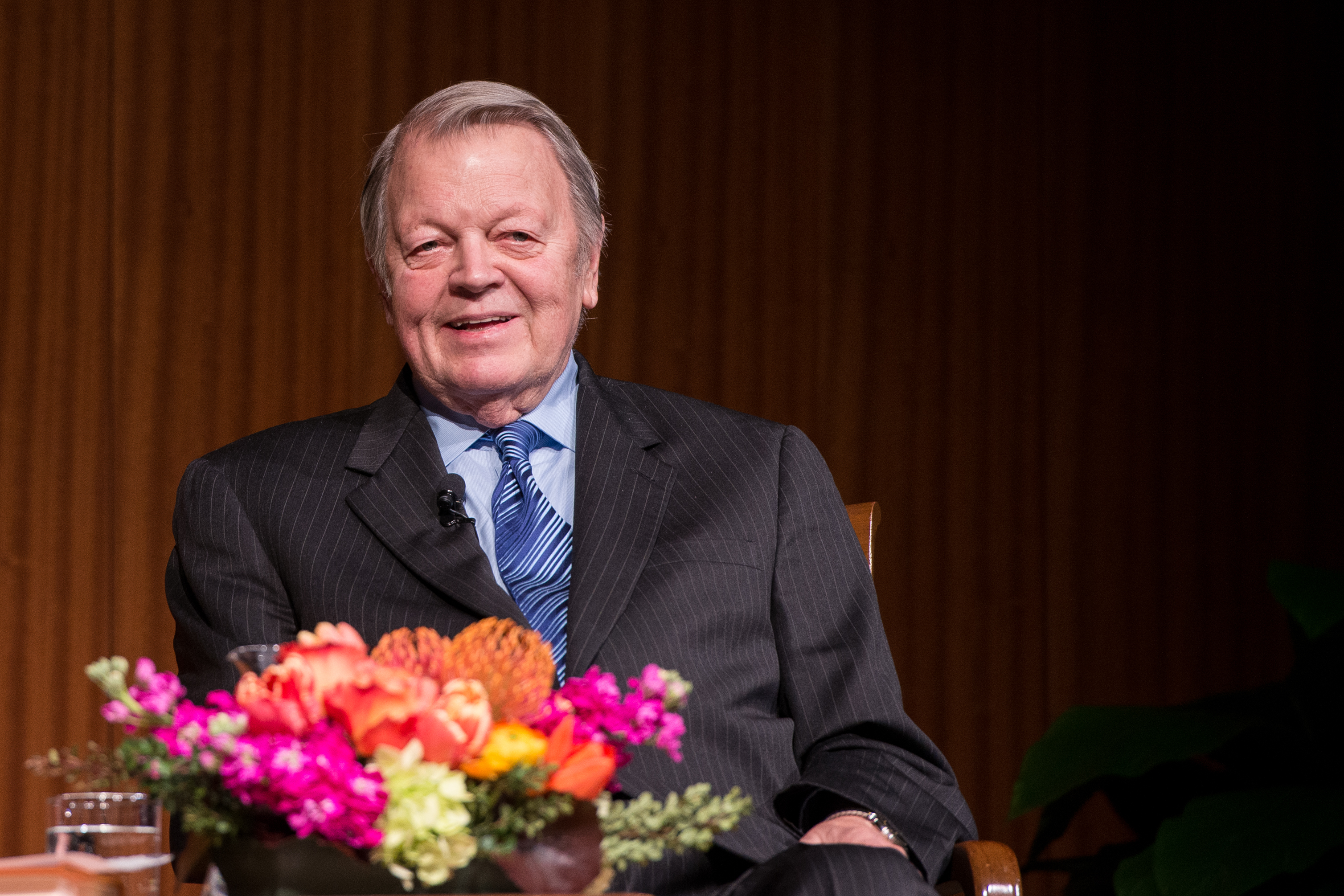 Author Garry Wills joins the Friends of the LBJ Library to discuss his latest book, "The Future of the Catholic Church with Pope Francis", at the LBJ Presidential Library on March 10, 2015. Former LBJ Library Director Betty Sue Flowers served as moderator with an introduction by Director Mark Updegrove. Photo by Lauren Gerson.